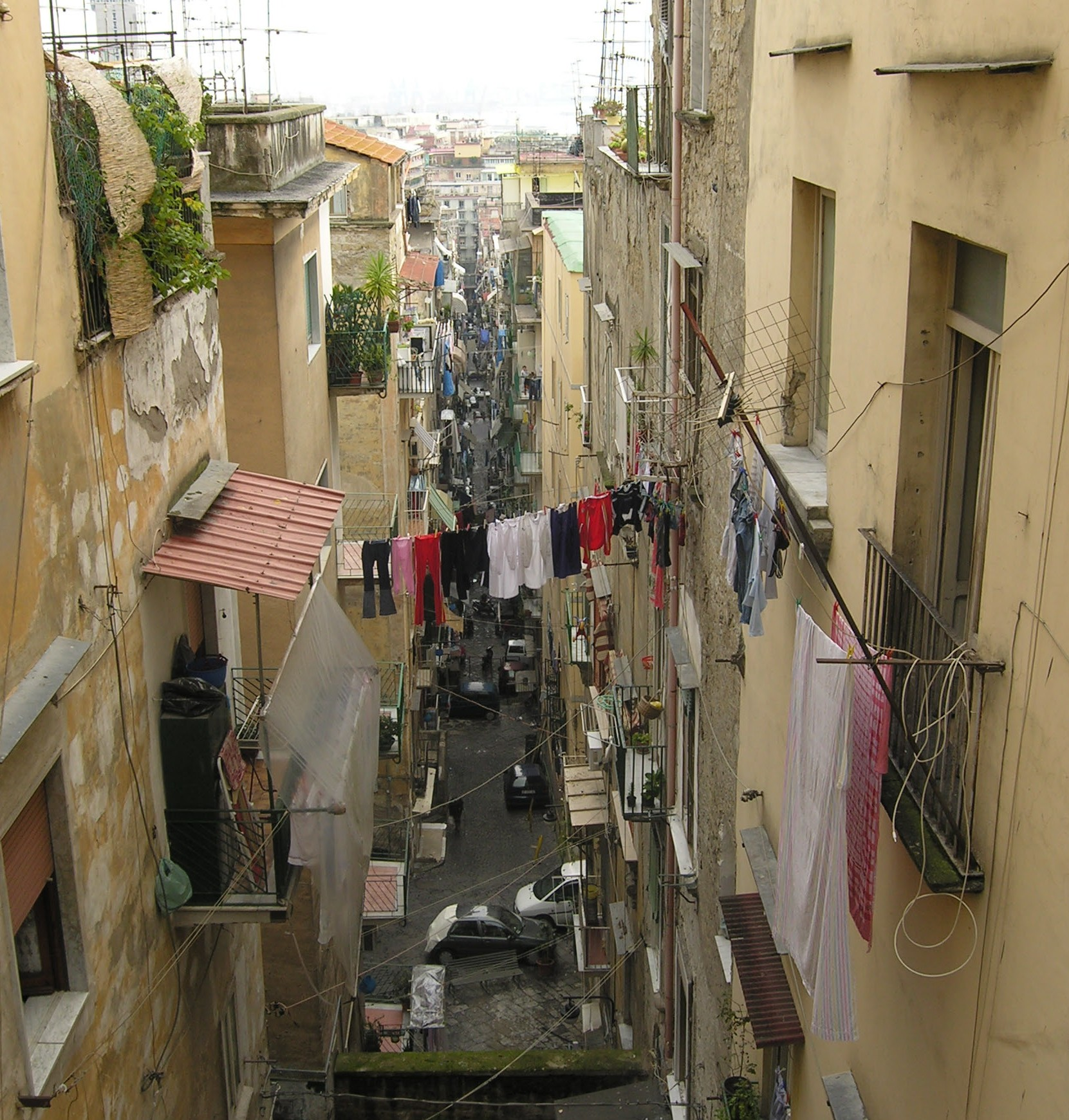 Clothes lines in Napoli